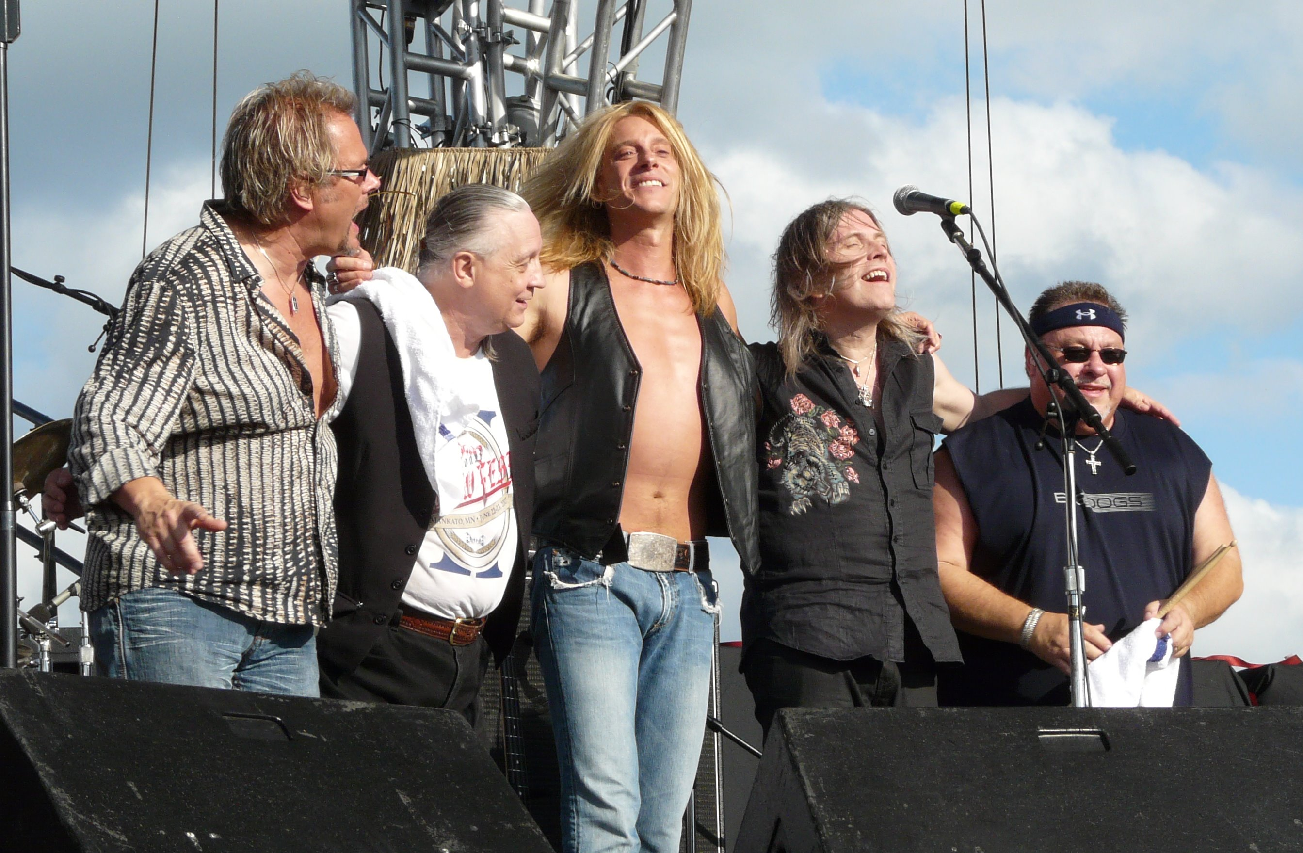 The Guess Who, At the Moondance Jam 2008 in Walker, Minnesota on July 10, 2008, PHOTO BY MATT BECKER